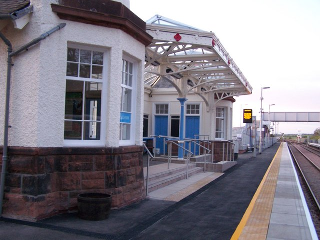 Laurencekirk Station The station at Laurencekirk after modernisation and re-opening.